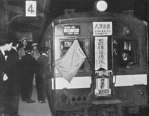 People's train